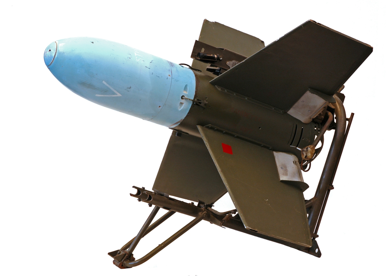 The French Nord Aviation SS.10 missile. The missile in the photo is part of the collections of the Swedish Naval Museum. Despite the SS.10 being an anti-tank missile, it was evaluated by the Swedish Navy as an anti-ship missile, with the purpose of taking out Warsaw Pact landing crafts. Eventually, the Nord SS.11 was selected because of its longer range. The Nord SS.10 was designated as Robot 51 by the Swedish Armed Forces.